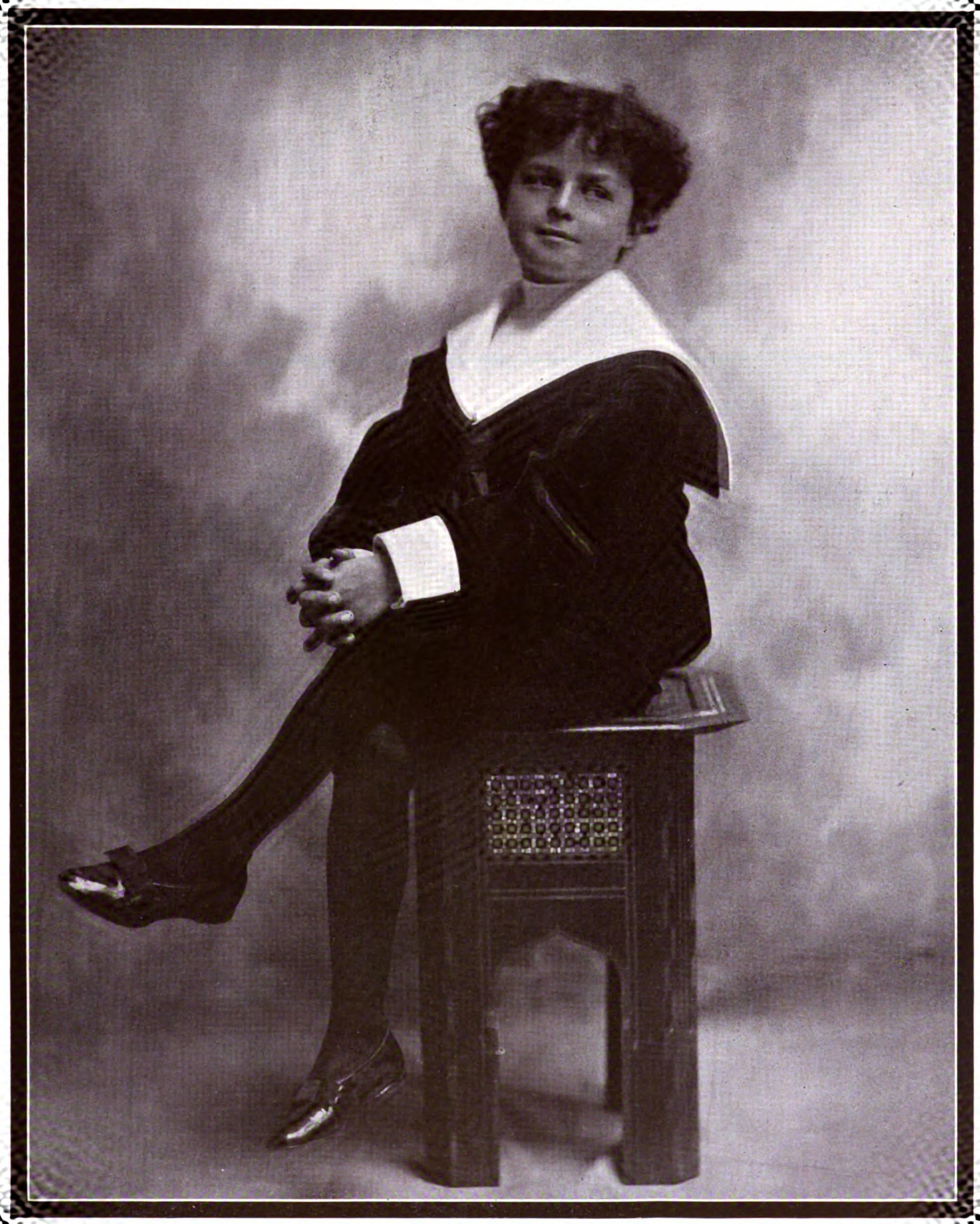 Bobbie McCay, the son of cartoonist Winsor McCay, in Little Nemo, a musical based on the cartoon character of the same name.